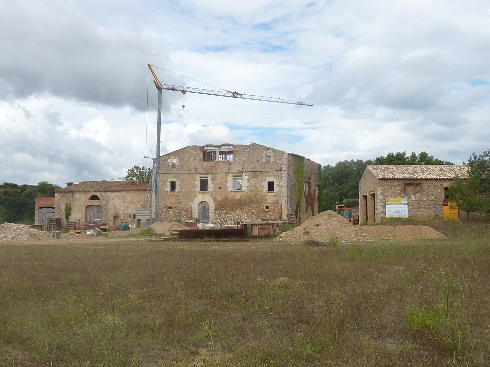 Palau Sabaldòria (Vilafant, Catalonia, Spain) in reform. The small church of Sant Miquel, which is part of the monument, is at the back of the building.